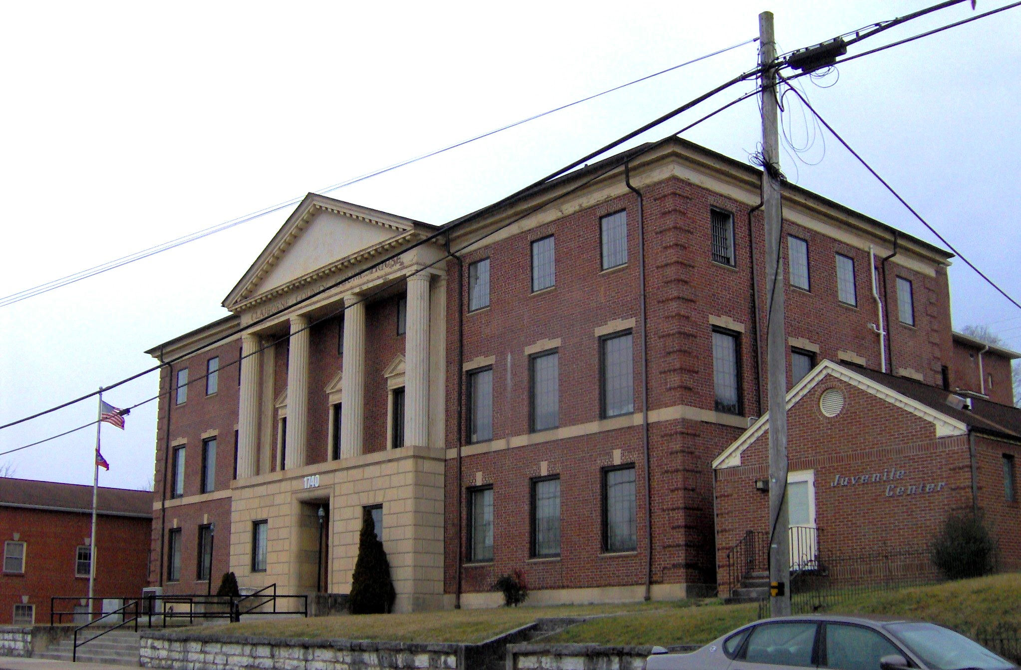 Claiborne County Courthouse in Tazewell, Tennessee, in the southeastern United States.